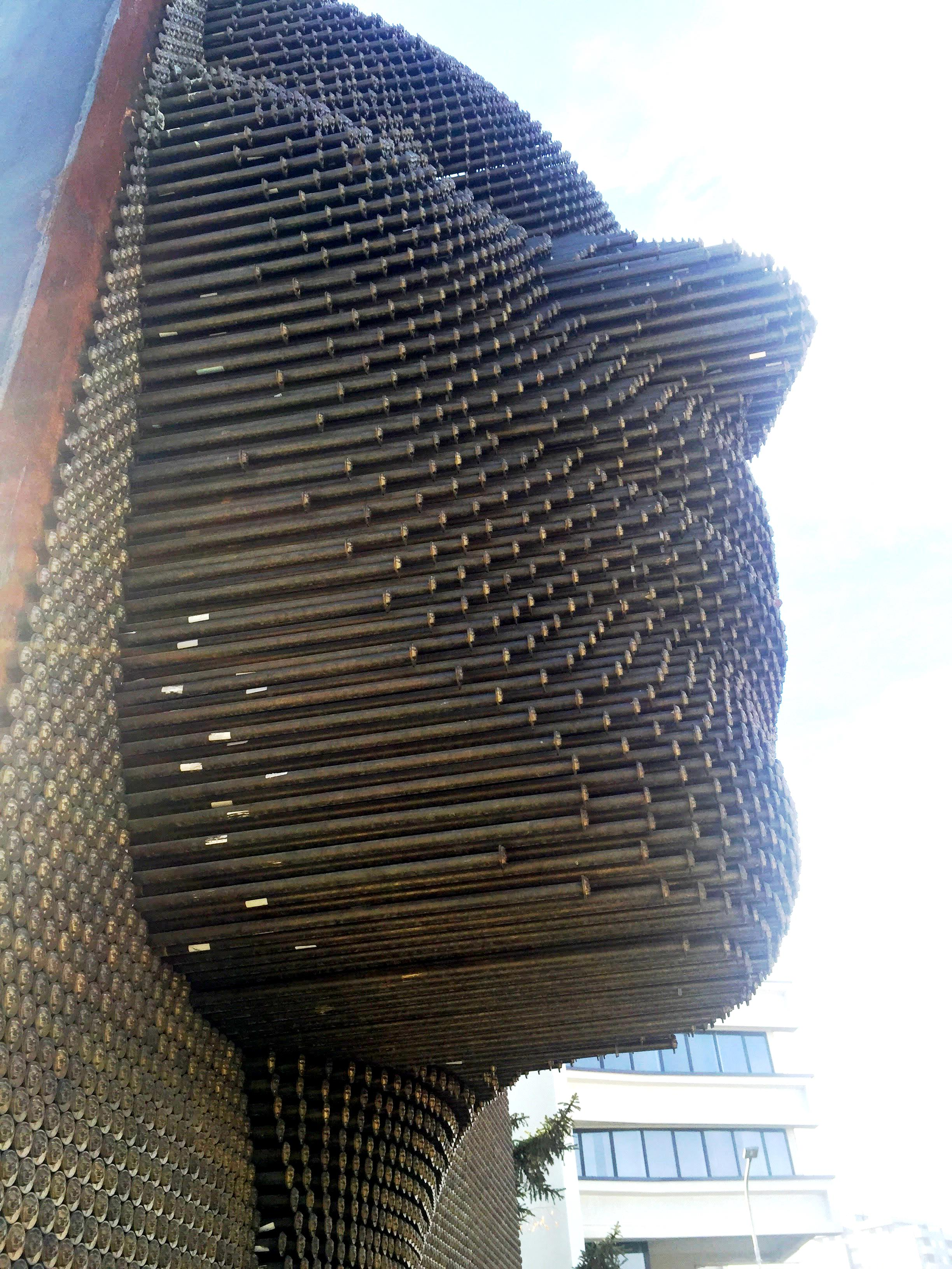 Heroinat Monumental, Pristina